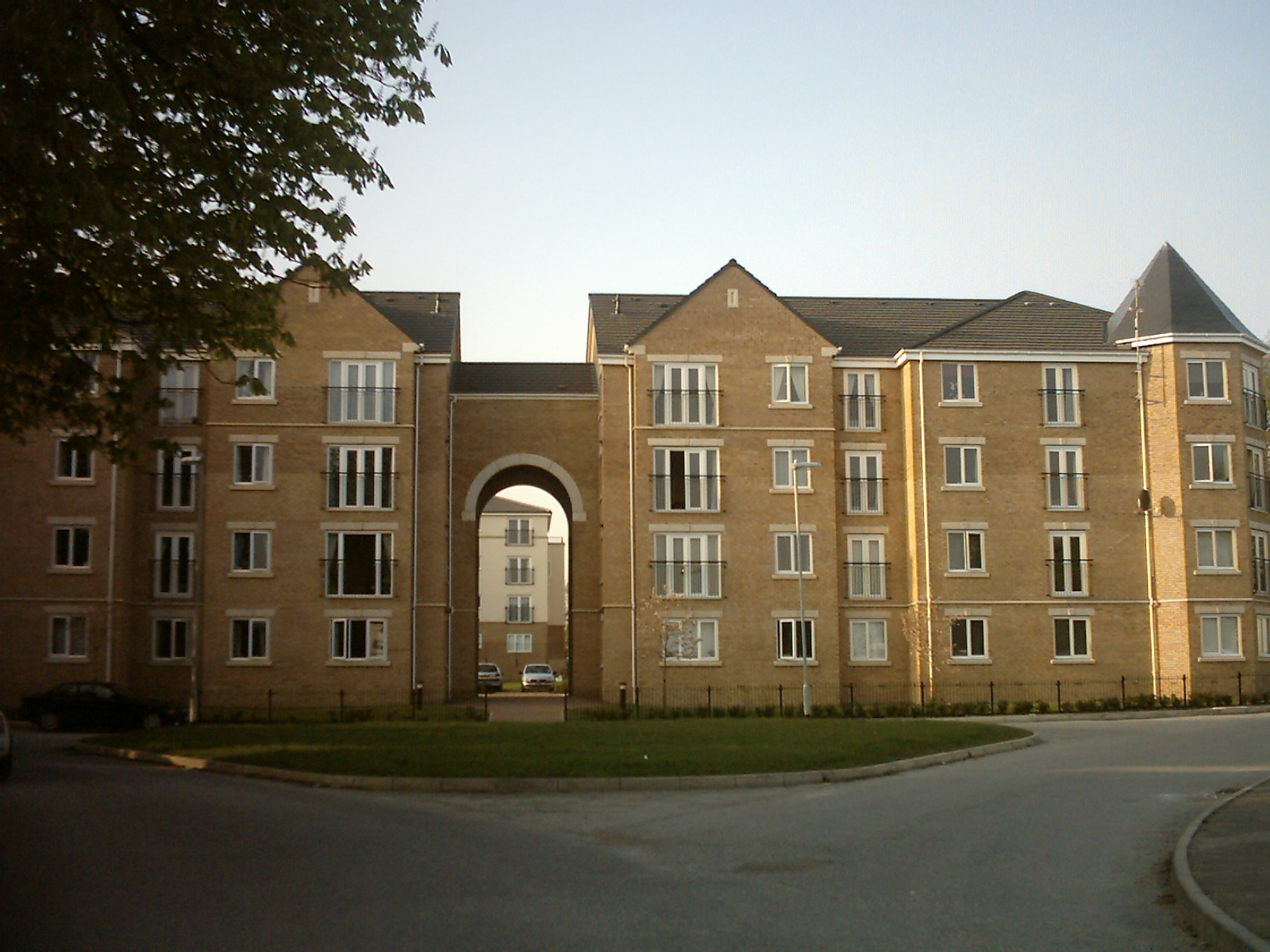 New flats in Killingbeck, Leeds, West Yorkshire, UK. Built on the former site of the Killingbeck Hospital.